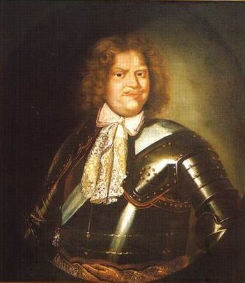 Johann Georg III, Elector of Saxony